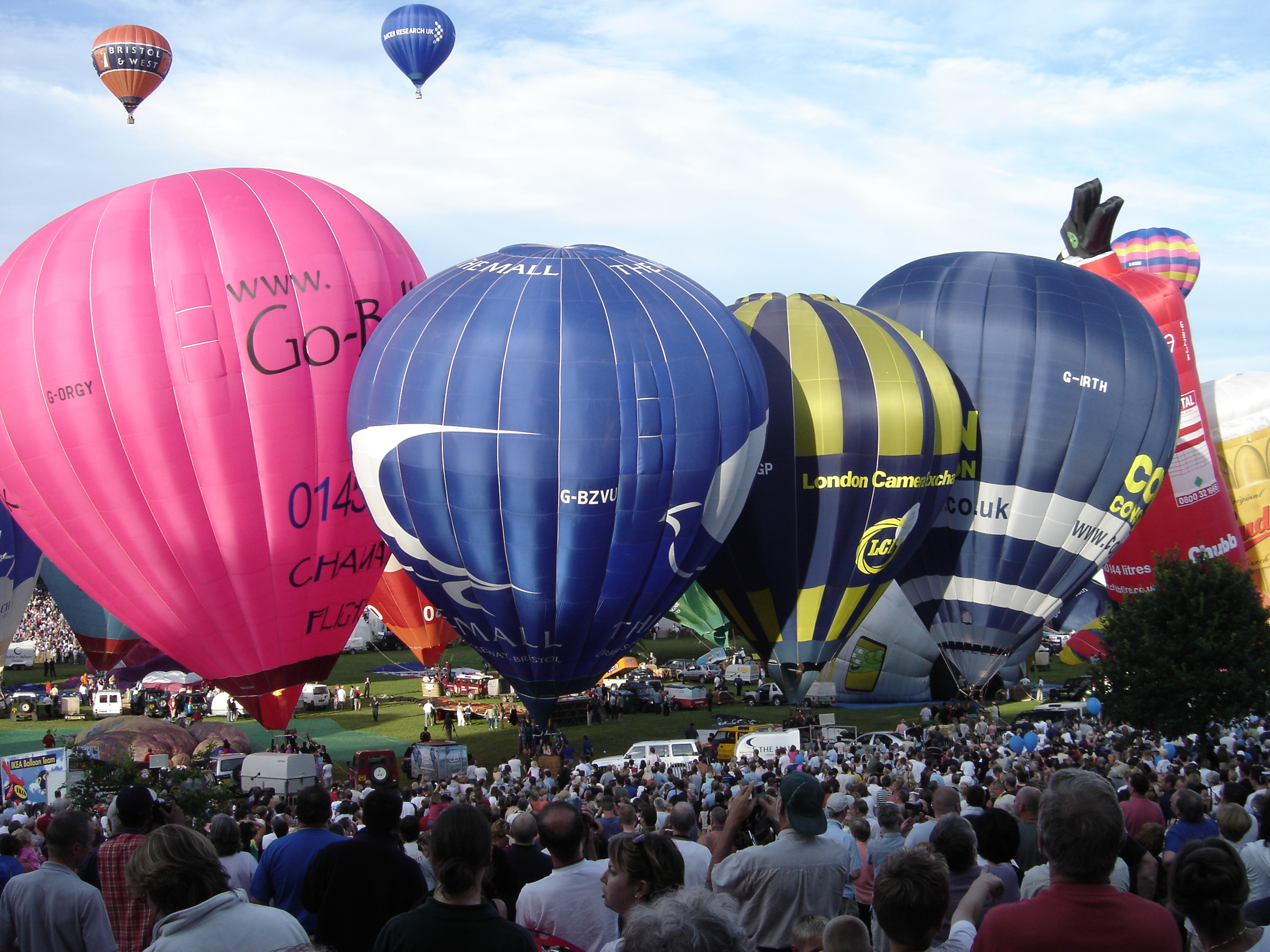 Bristol Balloon Fiesta August 2004 Saturday launch